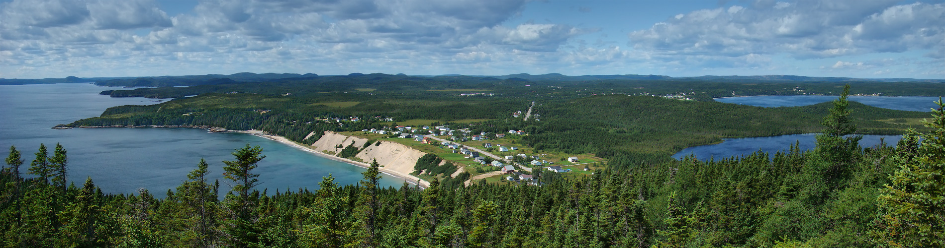 Eastport Peninsula, Central Newfoundland, Canada. Panorama looking westward. At the centre, the town of Sandy Cove with its beach. On the left in the background, the Terra Nova National Park. On the right: in the foreground, the Sandy Cove Pond; further behind, the town of Eastport on the shore of the Eastport Bay.